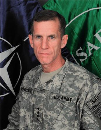 U.S. Army General Stanley McChrystal in his official portrait as head of ISAF